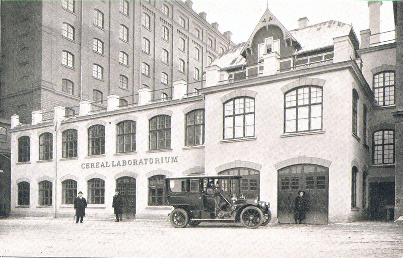 Cereal lab at the Saltsjöqvarn mill